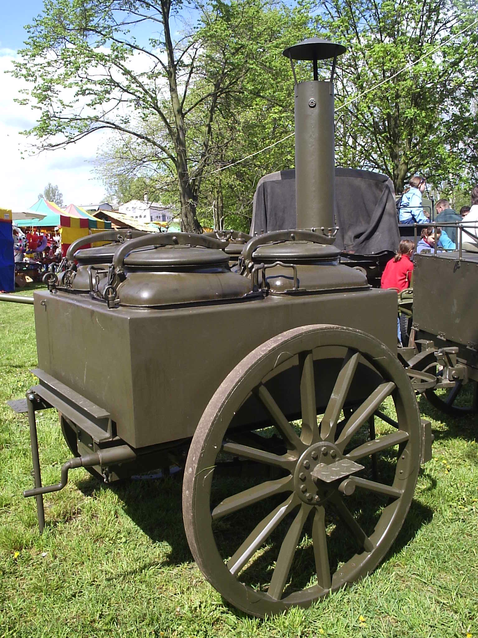 Polish kitchen trailer “wz. 36-P”